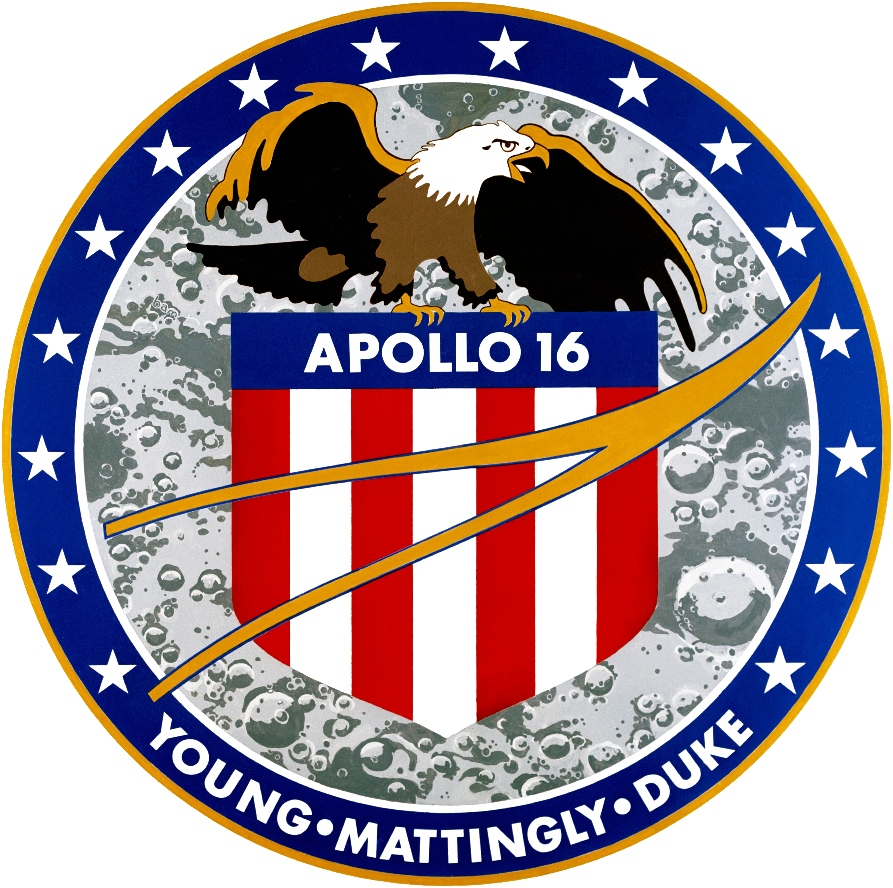 Apollo 16 mission logo The Apollo 16 crew patch is dominated by an eagle perched atop a red, white and blue shield a superimposed on a lunar scene, surrounded by a blue circle of 16 stars with the crew's surnames completing the bottom are of the circle. Across the face of the shield is a gold symbol of flight outlined in blue, similar to that on the National Aeronautics and Space Administration (NASA) agency seal and insignia. The design was created by a NASA artist from ideas submitted by the three crew members: astronauts John W. Young, commander; Thomas K. Mattingly II, command module pilot; and Charles M. Duke Jr., lunar module pilot.